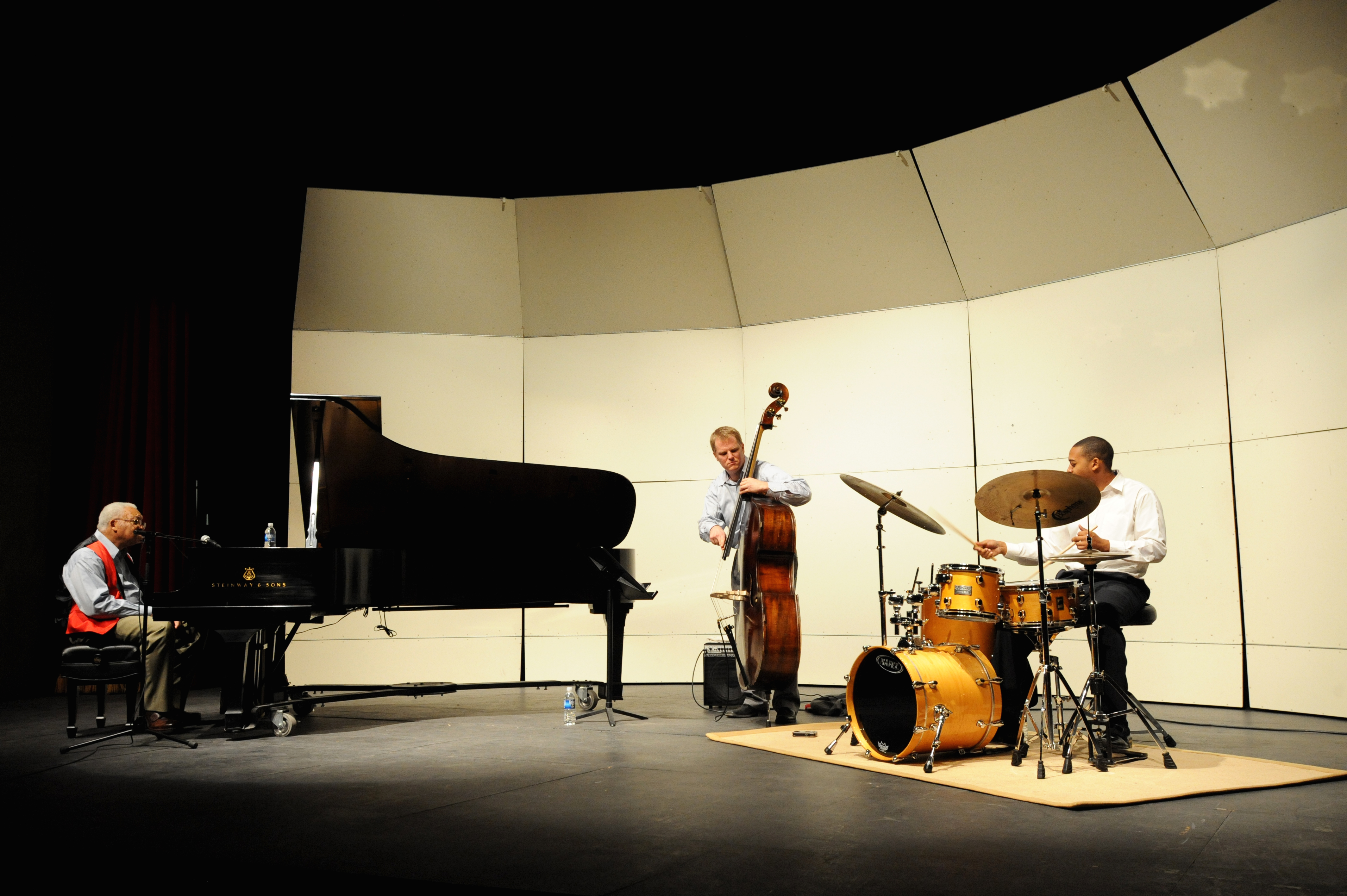 Ellis Marsalis Trio; October 21, 2010 in Dixon Hall